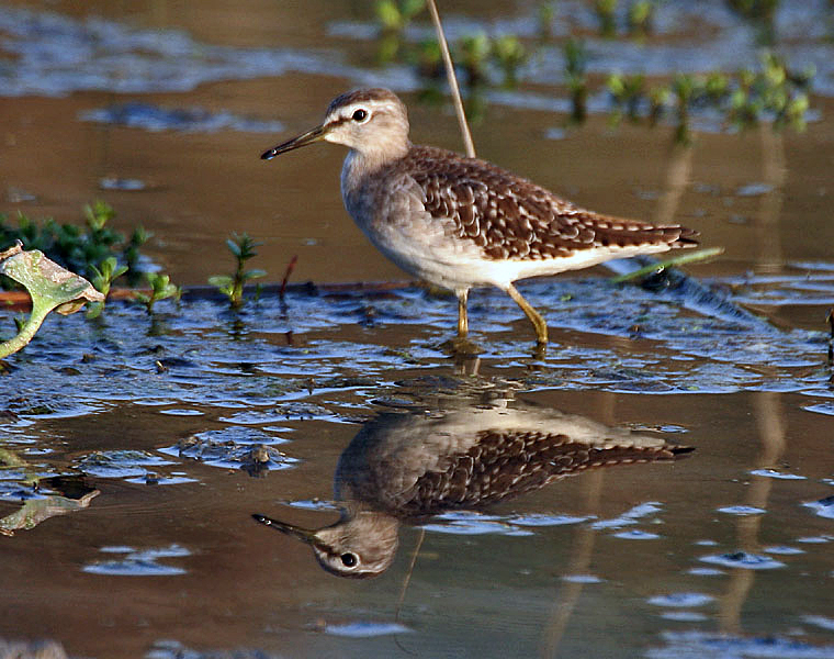 Wood Sandpiper Tringa glareola at Hodal, in Faridabad, District of Haryana, India.